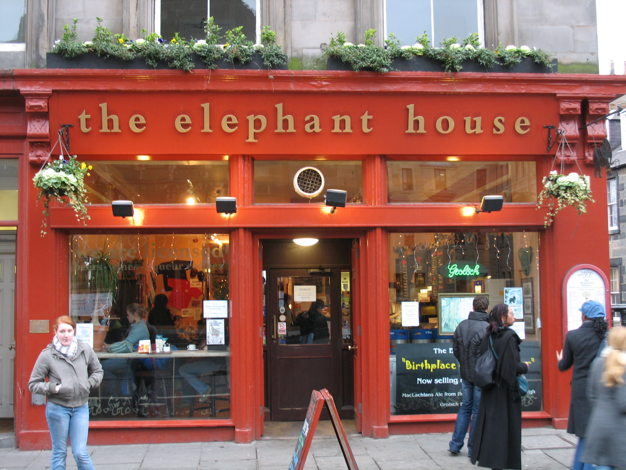 Home to the initial writing of Harry Potter